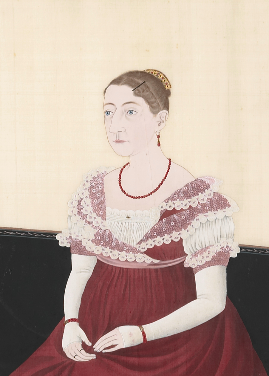 Painting depicting the Cock Blomhoff family with servants. Left, sitting on the chair: Jan Cock Blomhoff, opperhoofd on the trading island of Dejima. Standing beside the canapé: a European wet nurse (probably Petronella Muns). Sitting on the canapé: Titia Cock Blomhoff, née Bergsma, wife of Jan Cock Blomhoff. Her little son at her side. To the right two Javanese servants.